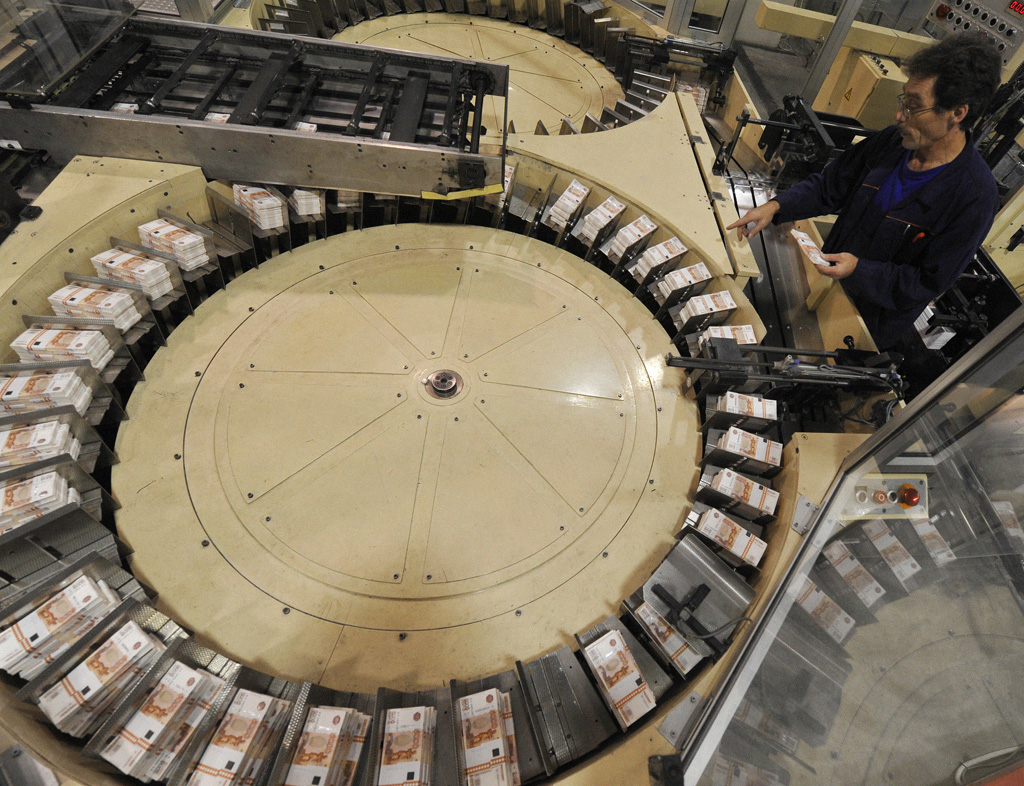 “Printing paper money at Goznak factory in Perm”. Printing paper money at a Goznak factory in Perm.